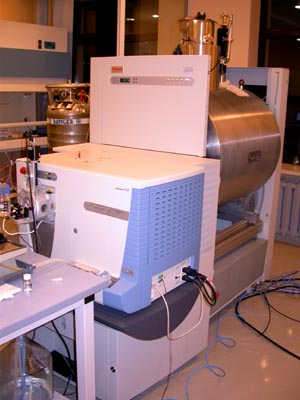 Thermo Finigan Linear Ion Trap - Fourier Transform Ion Cyclotron Resonance Mass Spectrometer. Laboratory of Mass Spectrometry, Institute of Biochemistry and Biophysics, Polish Academy of Sciences